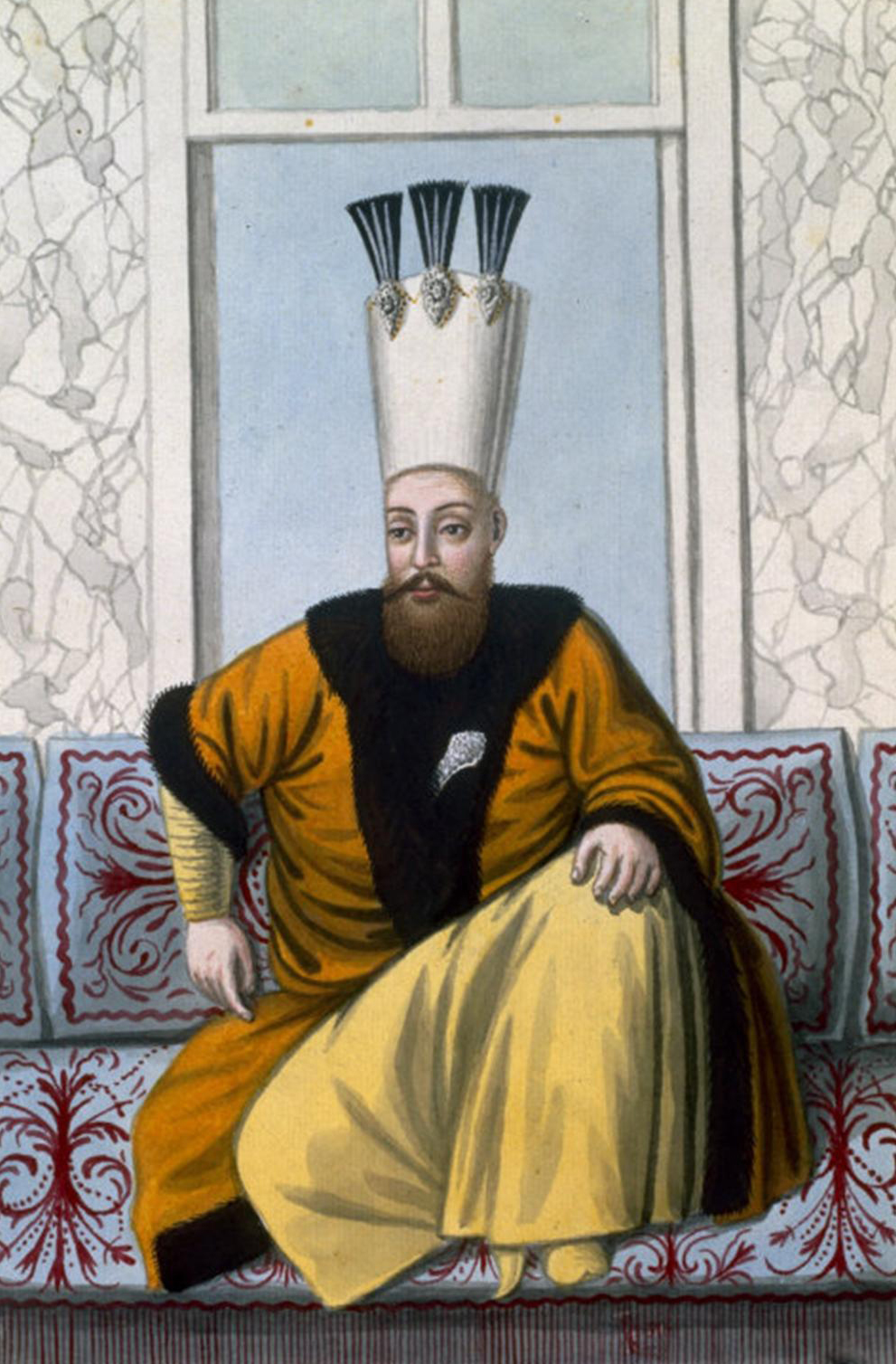 Portrait of Mahmud I, Sultan of the Ottoman Empire (1730-1754). The portrait has been printed using the Giclée process.